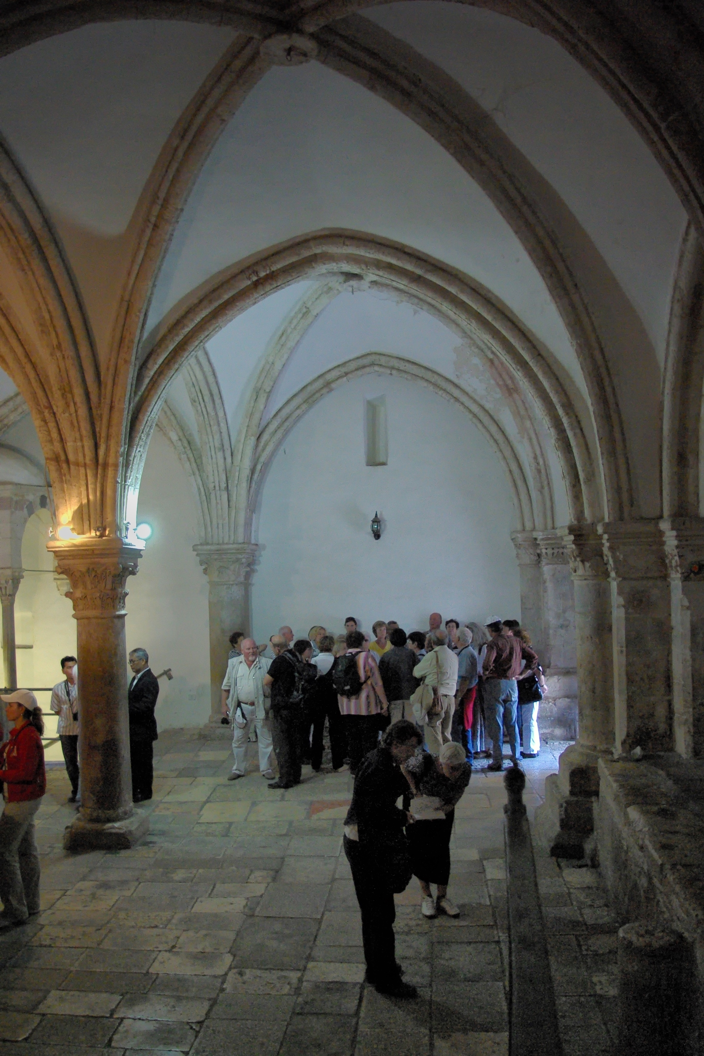 Jerusalem, Cenacle, the site of The Last Supper on the Mount Zion